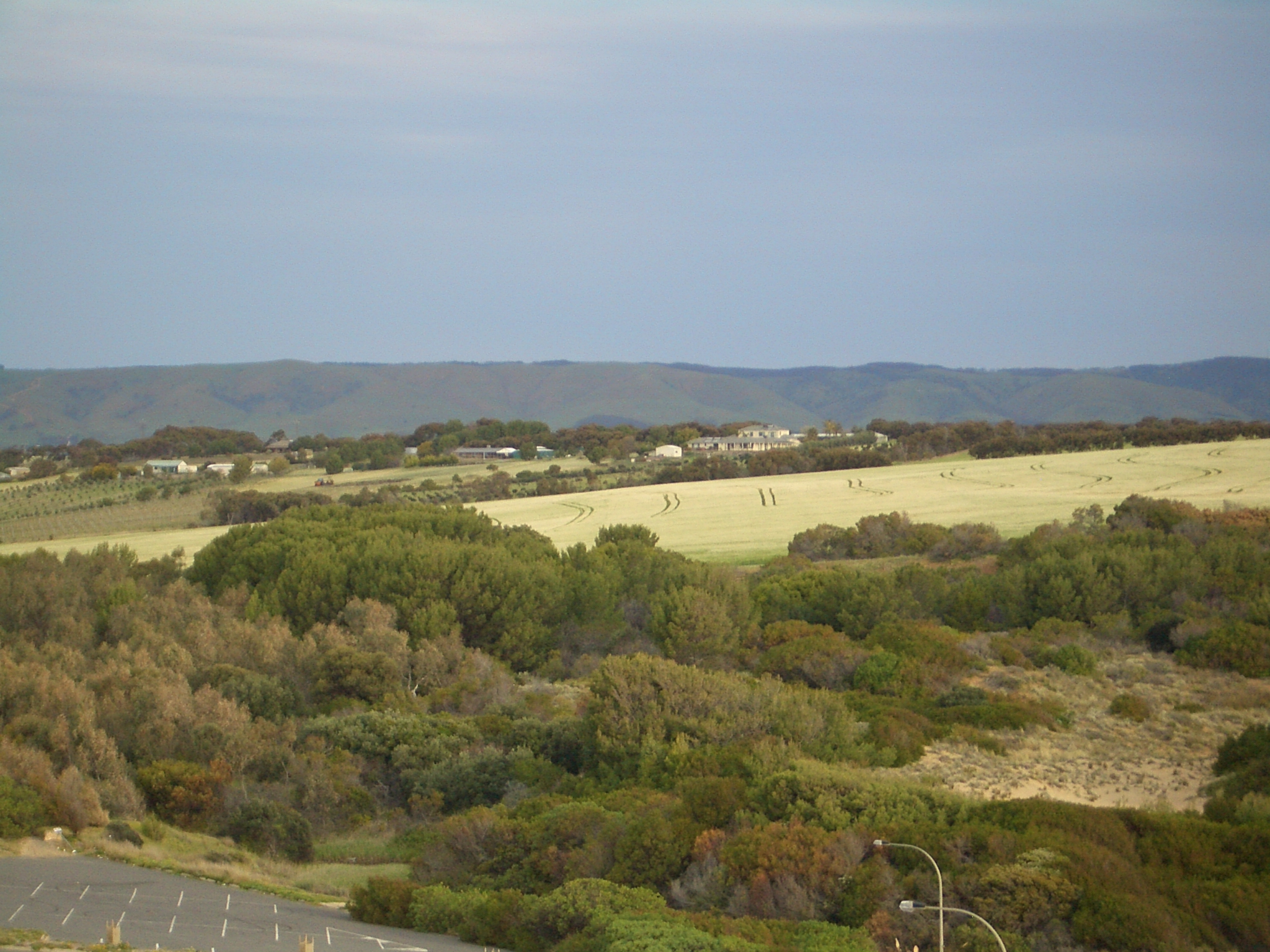 Maslin Beach in late September or early October